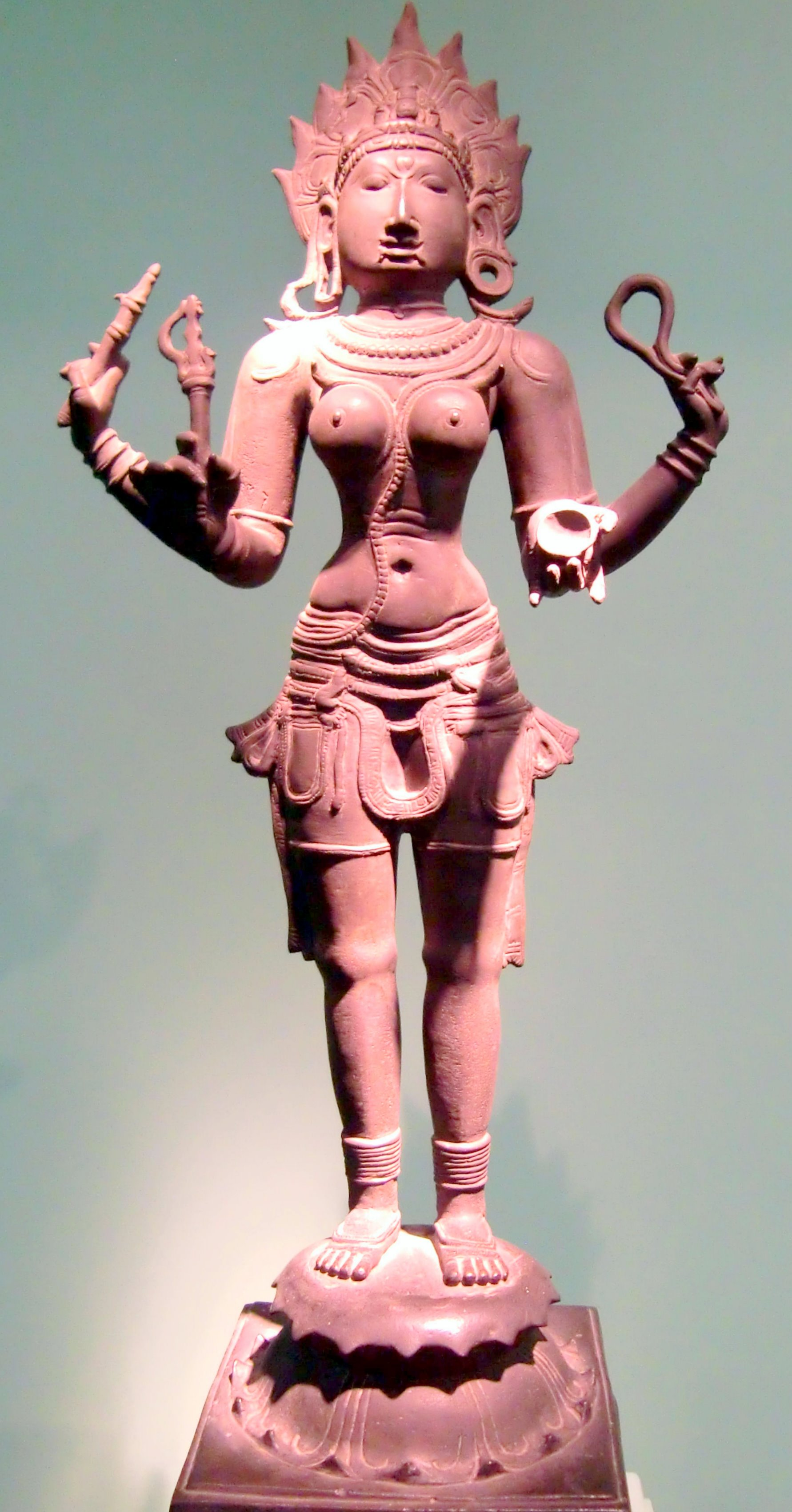 Hindu famous Goddess Kali 12th century, Bronze, National Museum of India